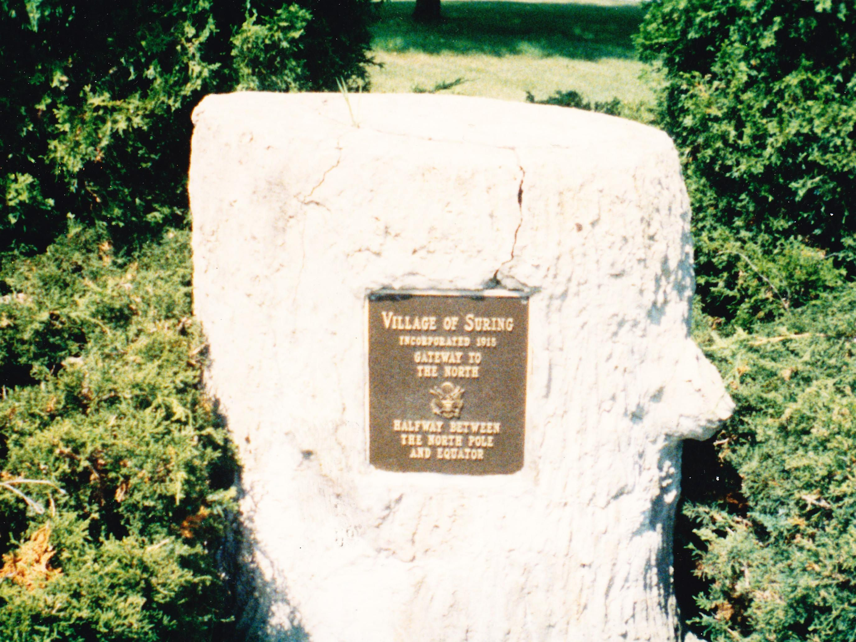 Marker in the village of Suring taken late Summer 1993. The marker announces the founding year of 1915 and that the village lies halfway between the Equator and the North Pole. This is true since it lies on the 45th Parallel.